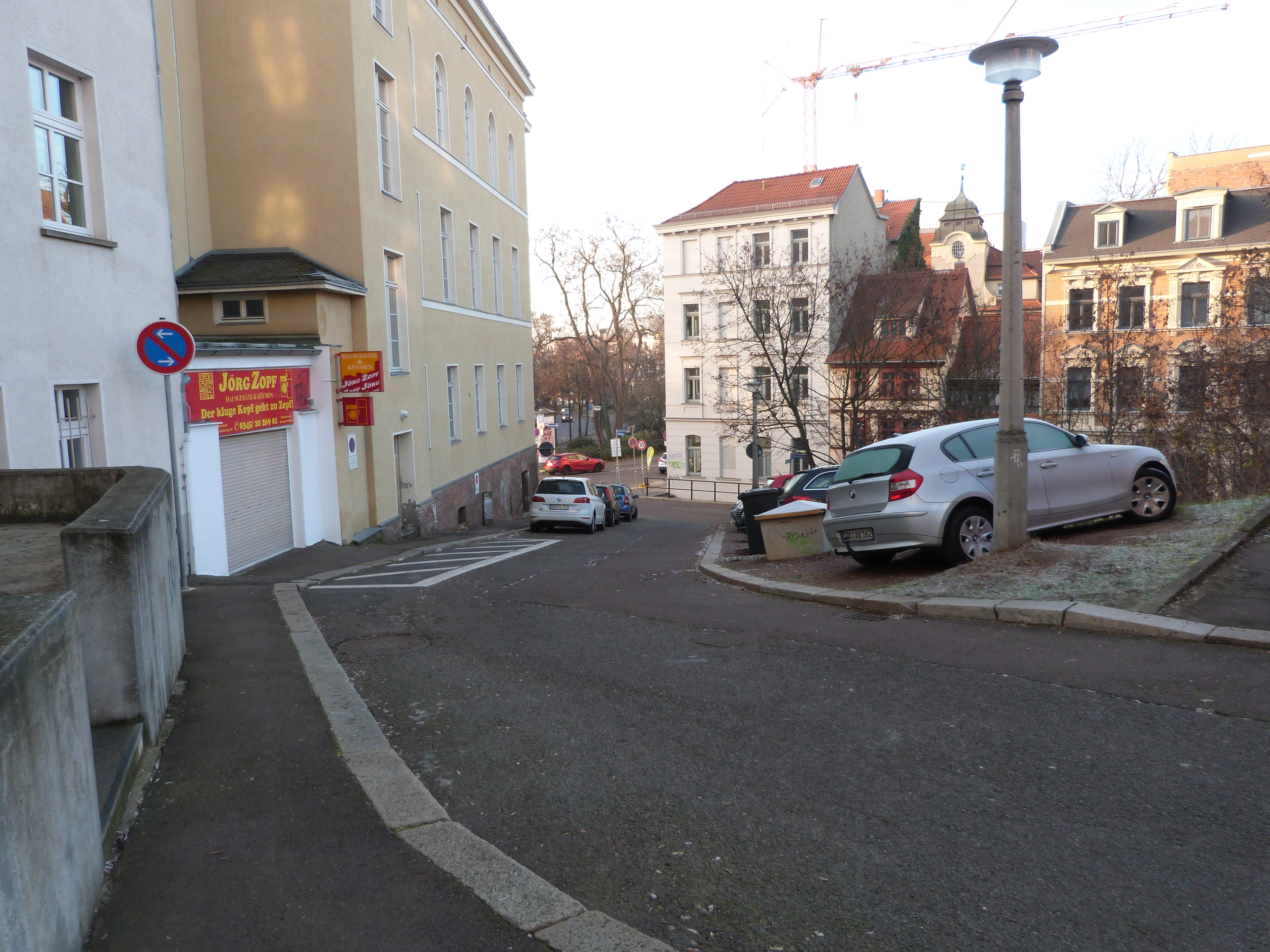 Lane Kapellengasse in Halle (Saale)